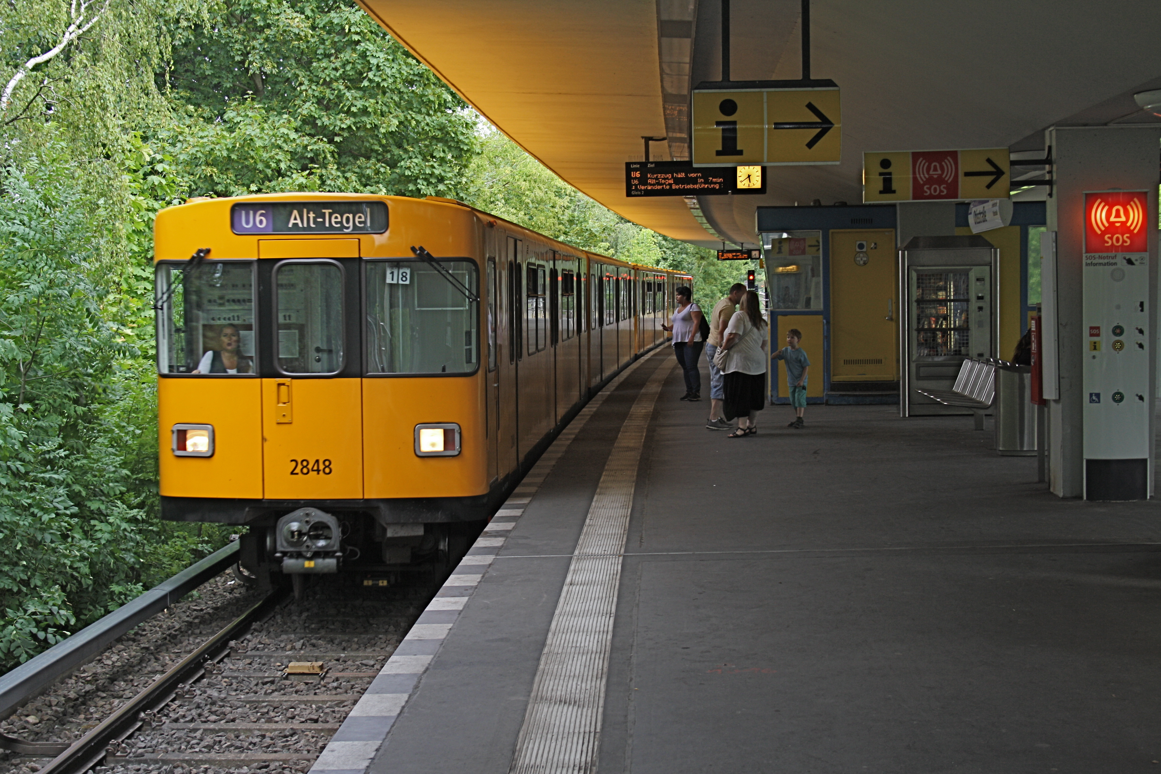 U-Bahn train of type F90 at Otisstraße U-Bahn station, Berlin